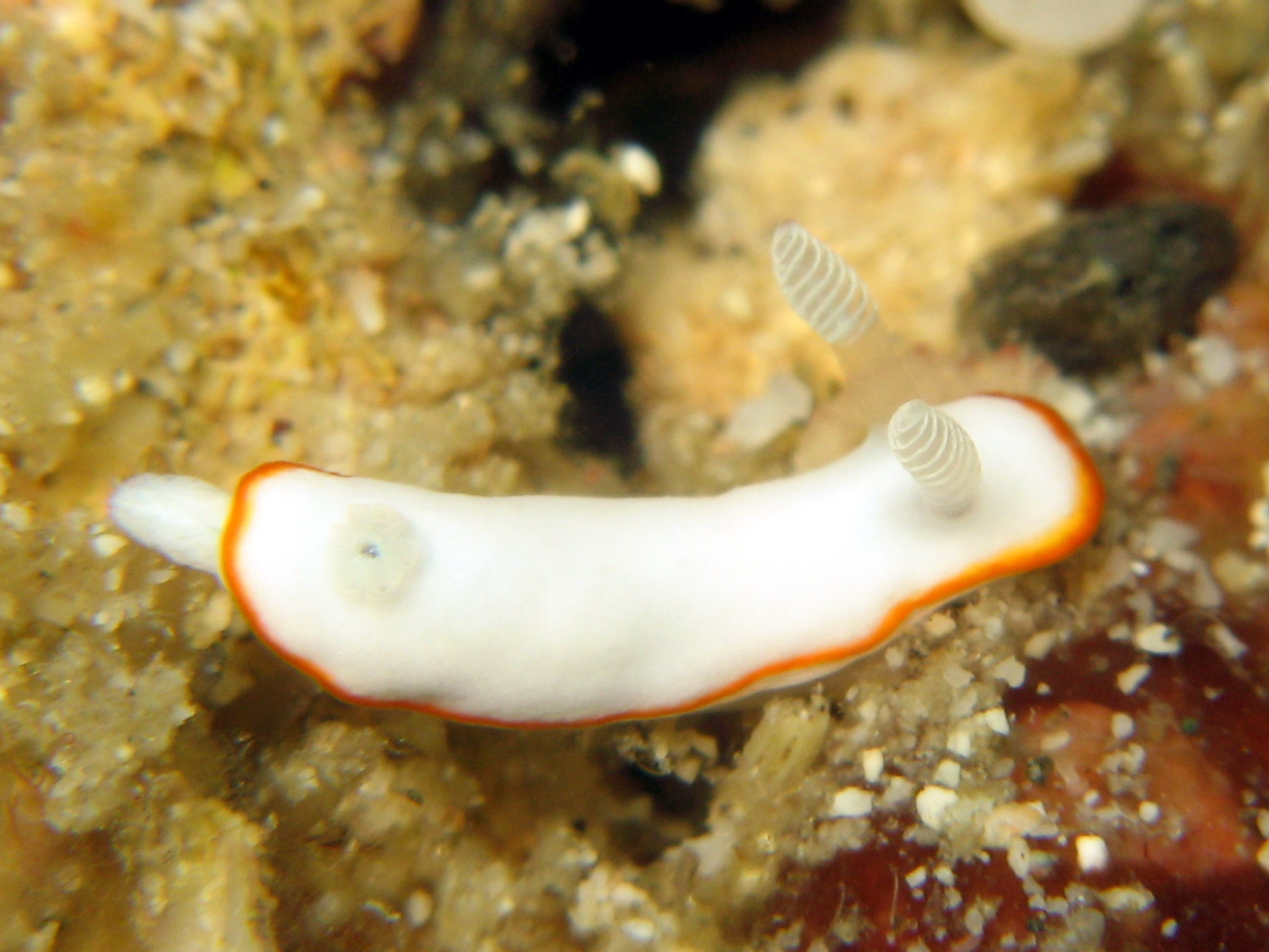 Nudibranch Goniobranchus albonares (Rudman, 1990) (synonym:Chromodoris albonares)